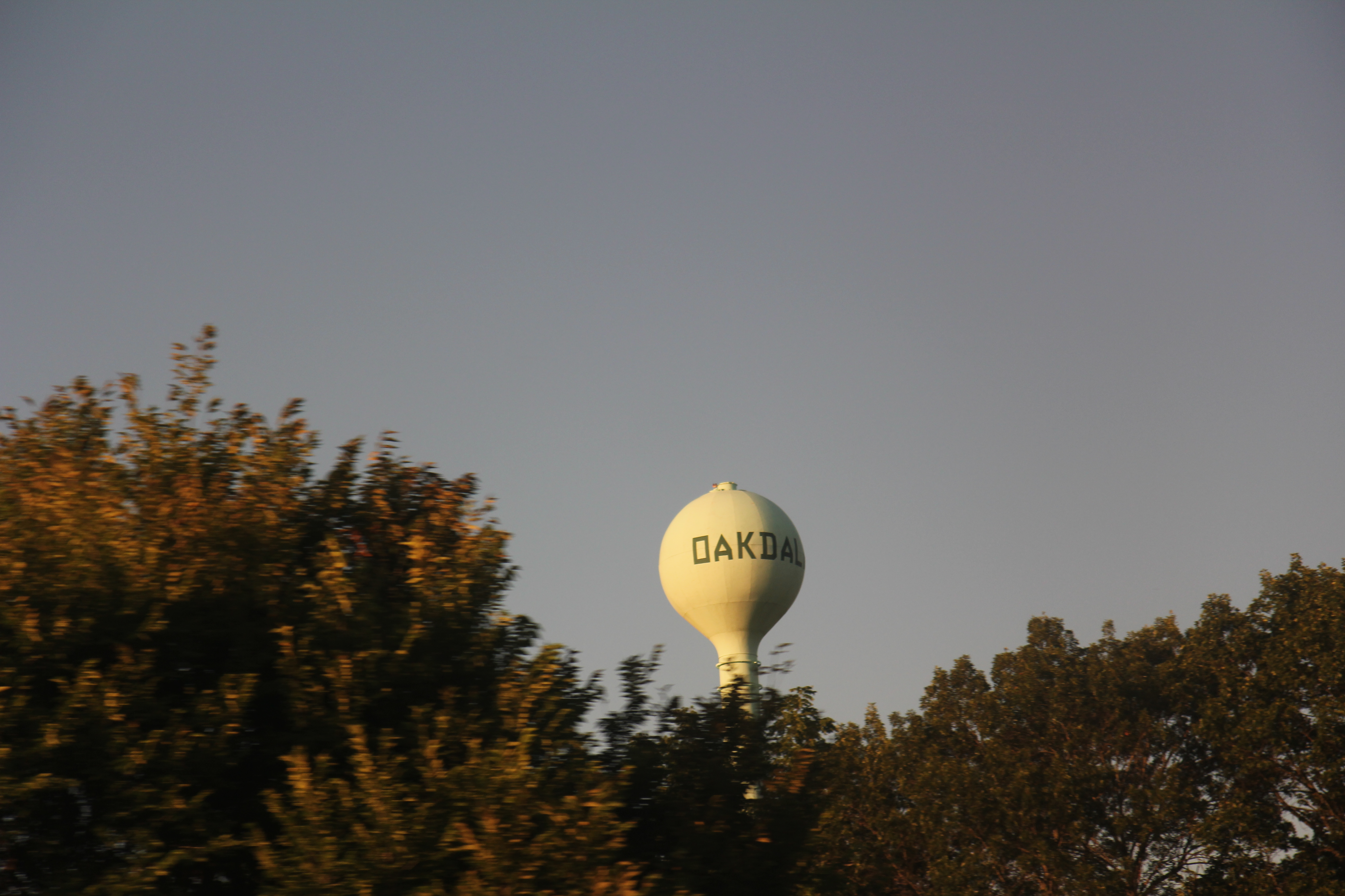 The water tower for Oakdale, Wisconsin.